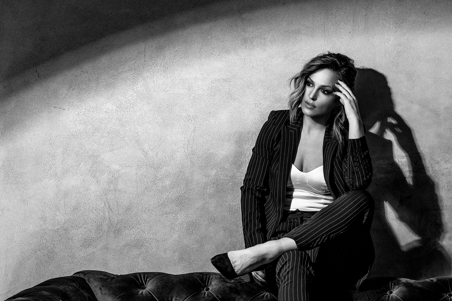 Tijana Bogićević